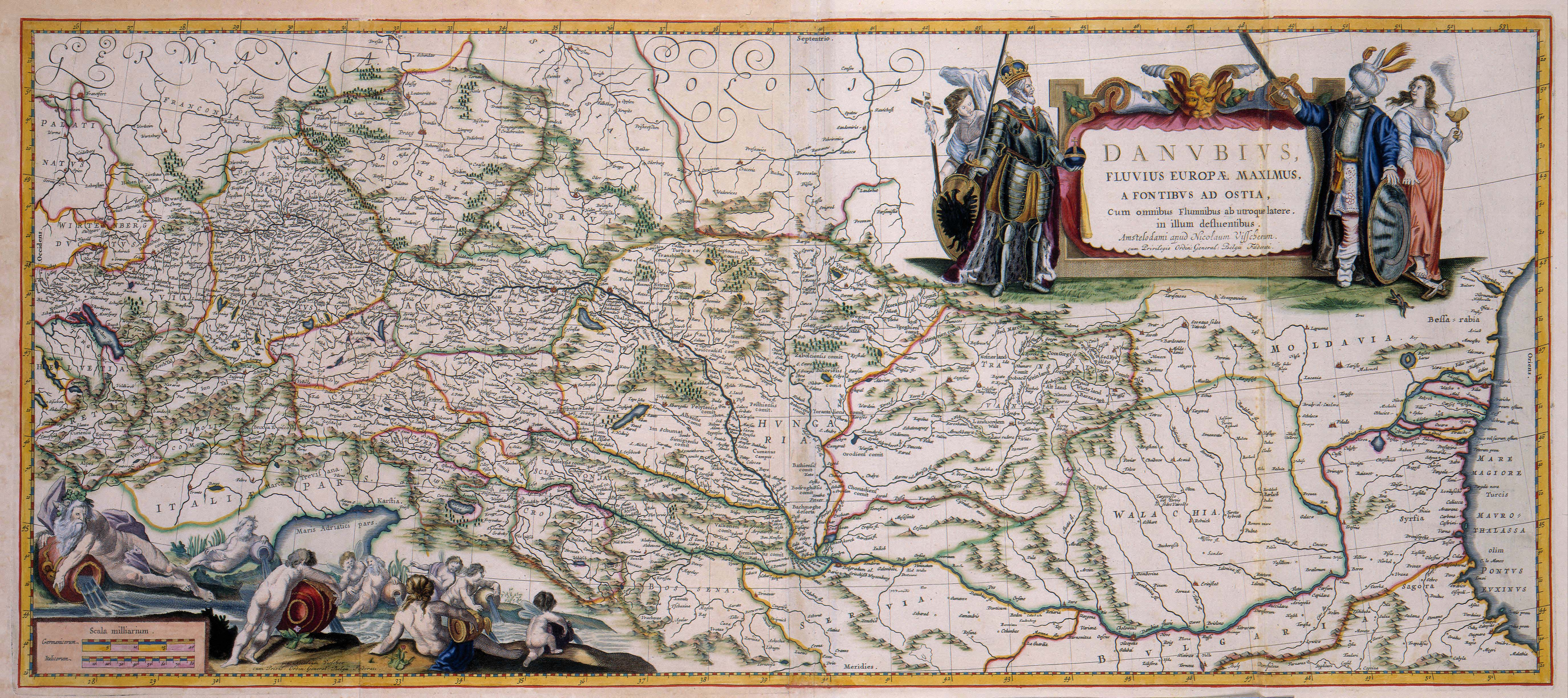 This map, a publication by Nicolaes Visscher II (1649-1702), was originally published in 1635 by Willem Jansz. Blaeu (1571-1638). Although almost 50 years later, the map had lost little of its actuality.